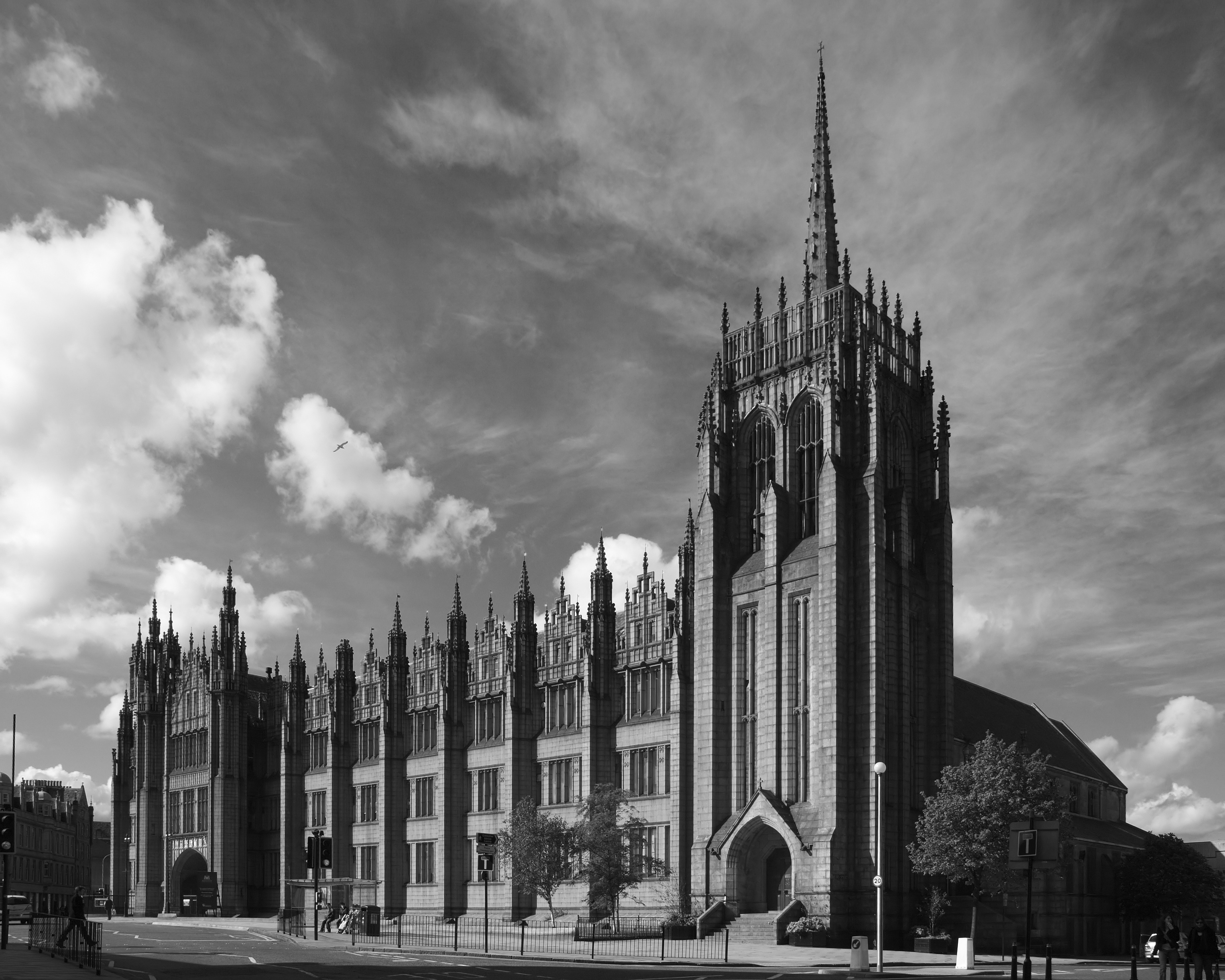 Marischal College (left) and Greyfriars Church (right) in Aberdeen, Scotland.